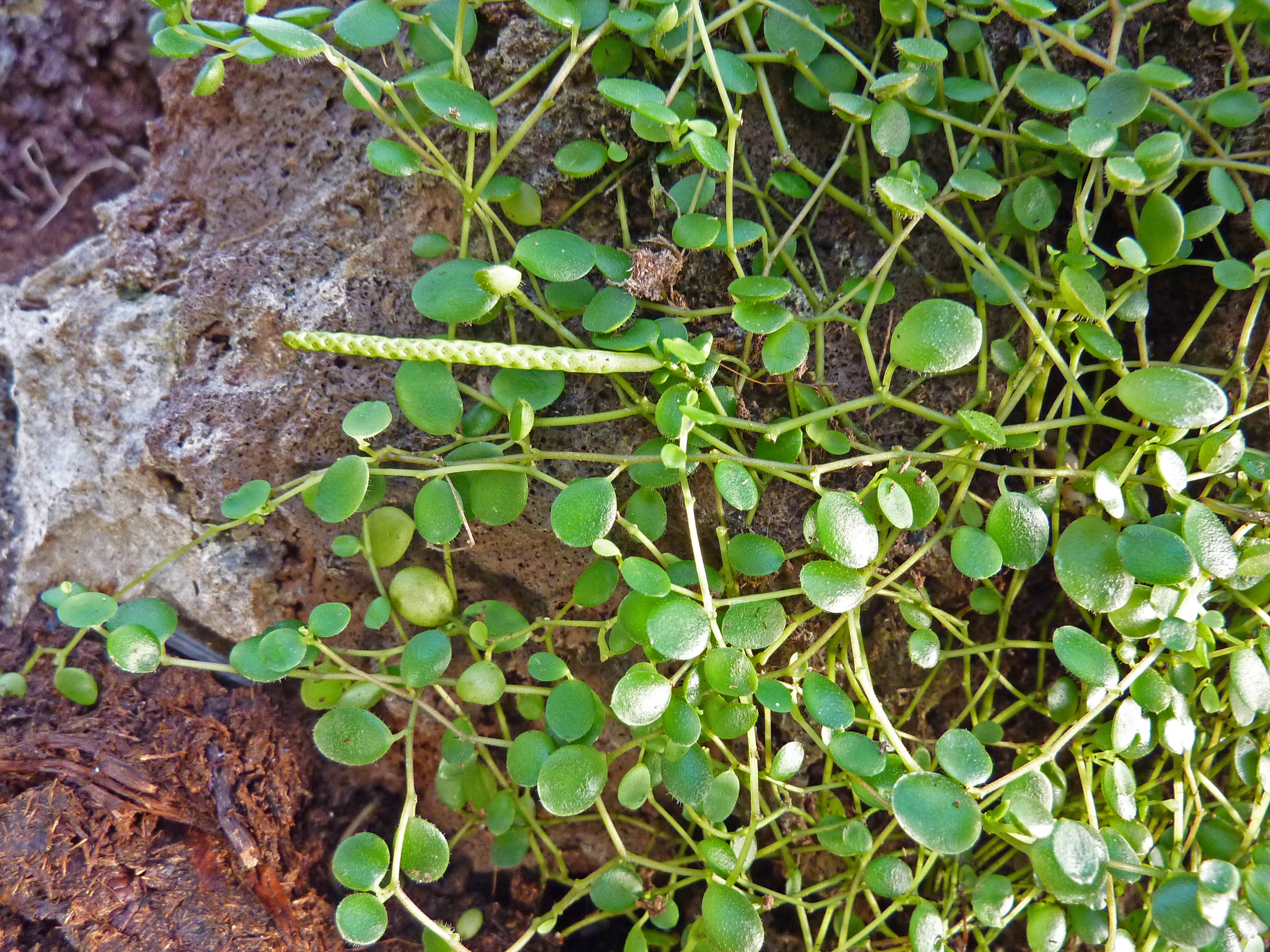 Peperomia rotundifolia var. rotundifolia in the Botanical Garden, Berlin